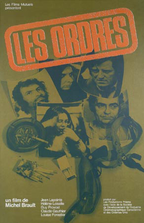 Poster of the movie Les Ordres (Q3018642)